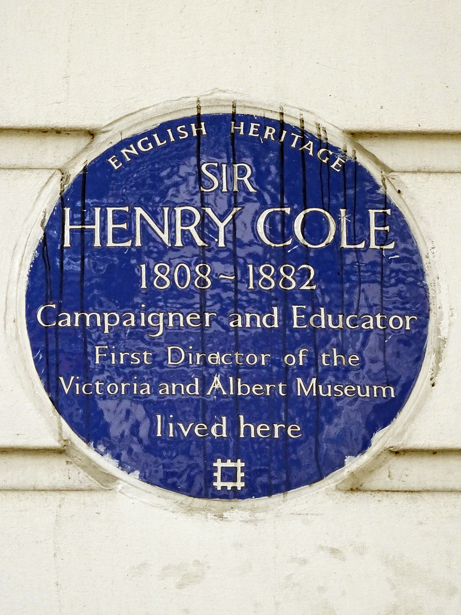 Blue plaque erected in 1991 by English Heritage at 33 Thurloe Square, South Kensington, London SW7 2SD, Royal Borough of Kensington and Chelsea